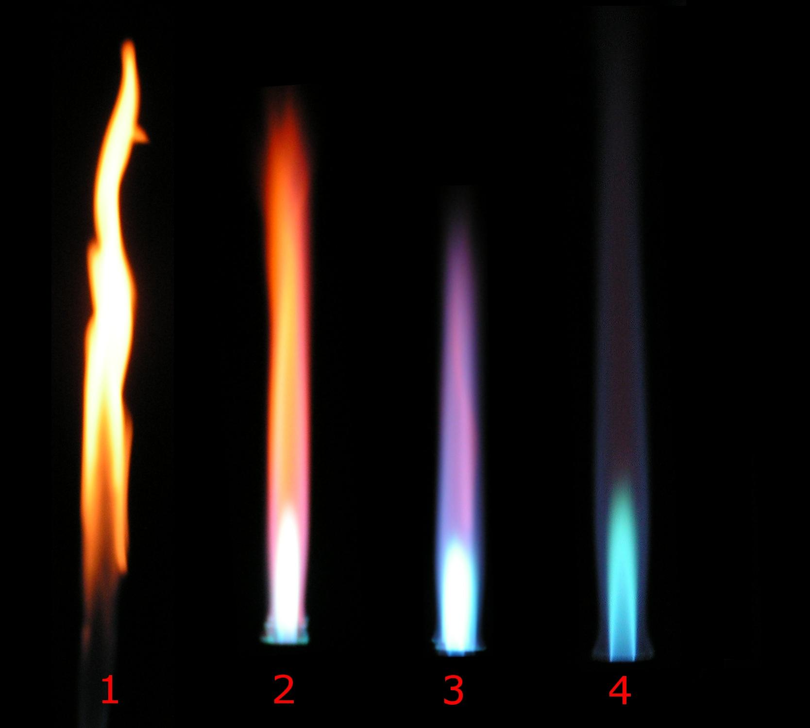 Different flame types of Bunsen burner depending on air flow through the valve. air valve closed air valve nearly fully closed air valve semi-opened air valve maximally opened This image was created by Arthur Jan Fijałkowski (WarX) using Open Source software and released under GFDL. Used photos are made by Garett.